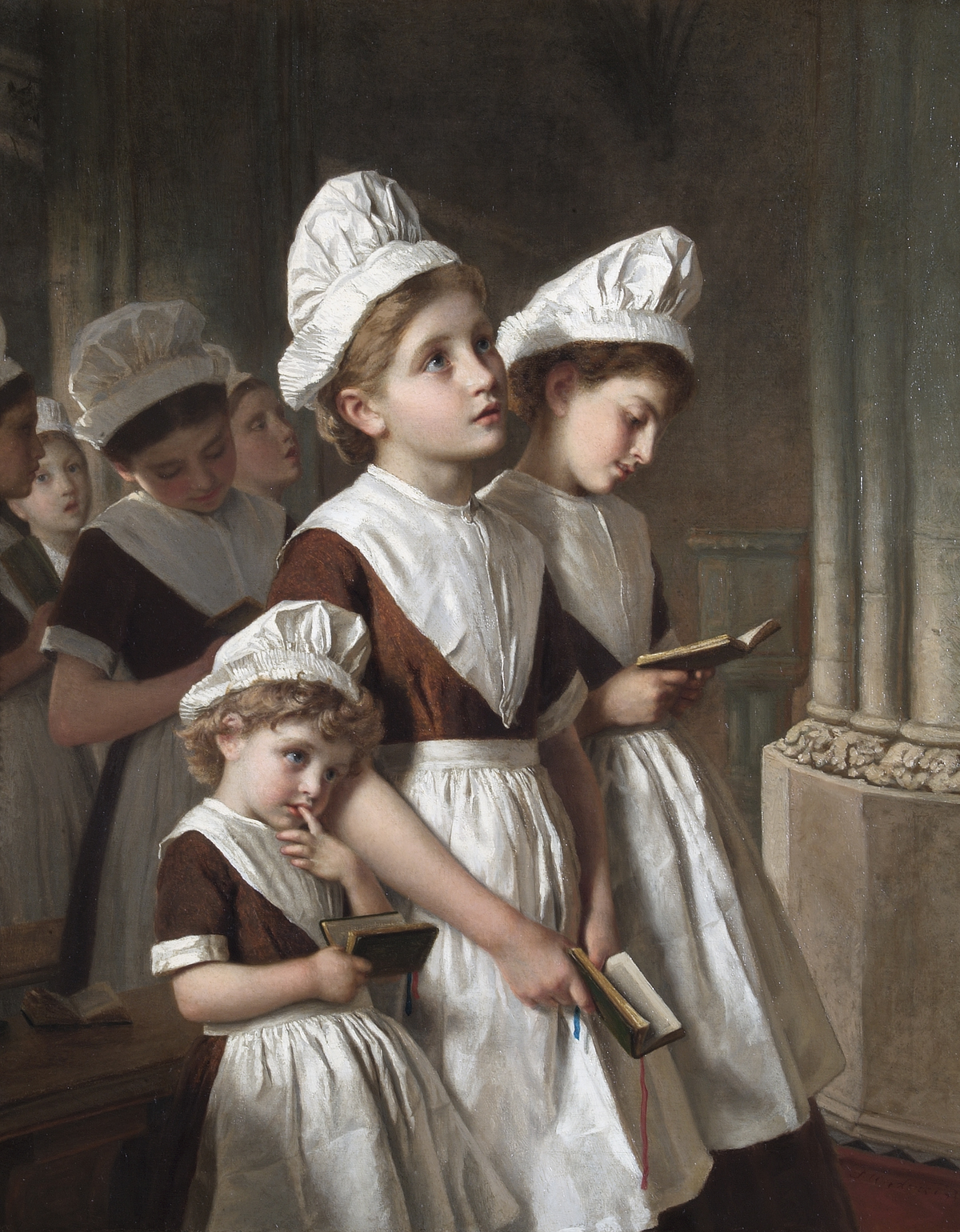 This painting illustrates Foundling girls at prayer in the Chapel of the Foundling Hospital. (see source)